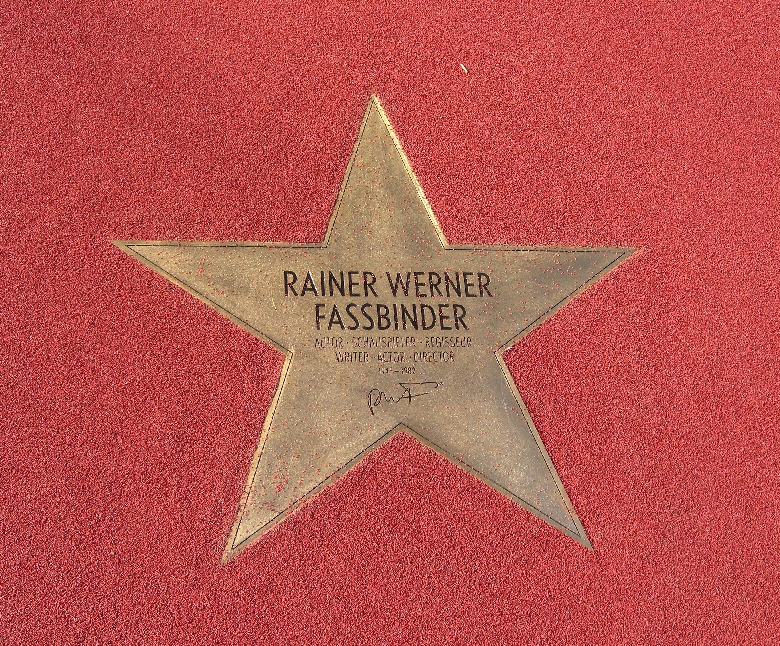 Star of Rainer Werner Fassbinder at "Boulevard der Stars" in Berlin.